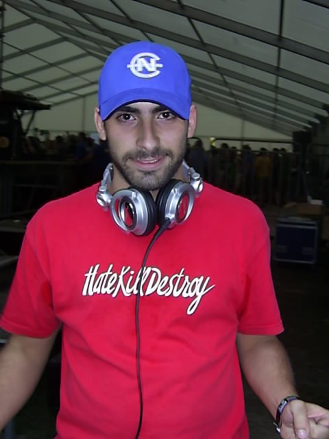 Efe Yilmaz, the DJ of rock band maNga. 13 August 2006. by Timea Baksa